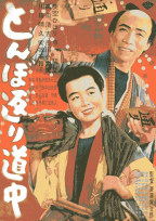 Movie poster for 1950 Japanese movie (とんぼ返り道中 Tonbo kaeri dōchū).